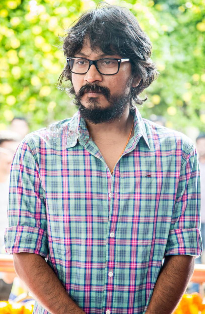 Director Vishnuvardhan at the Grahanam Movie Launch